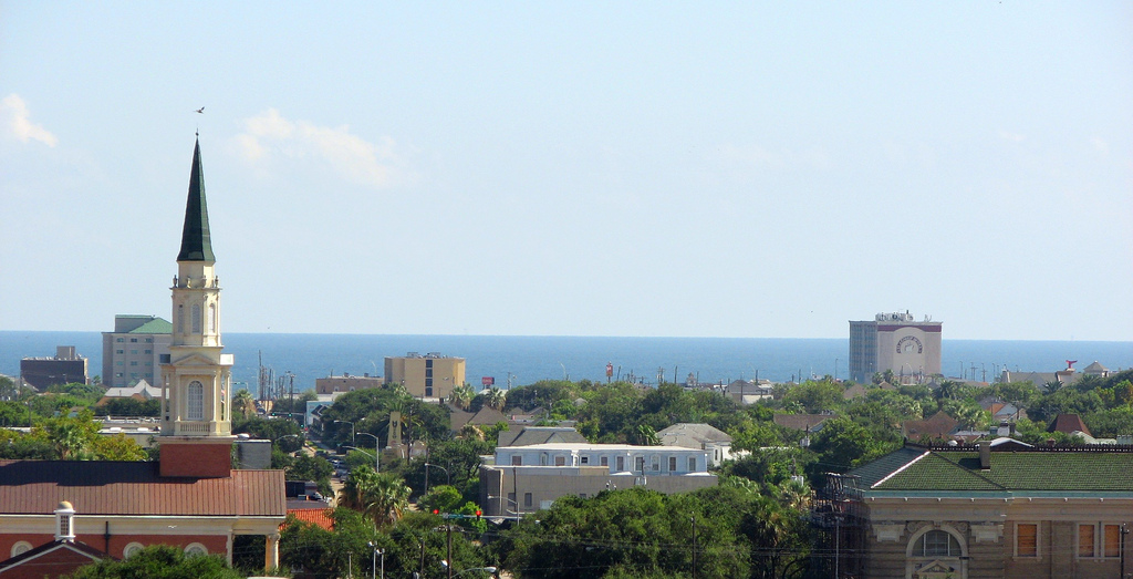 Skyline of Galveston, Texas, looking south towards the Gulf of Mexico.